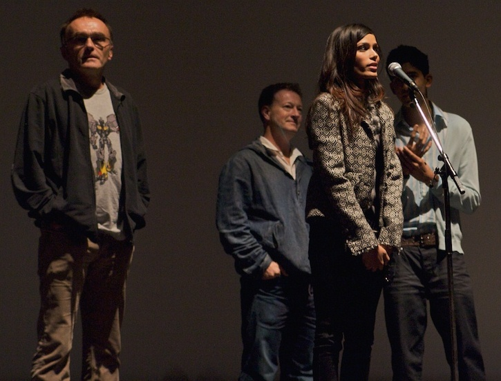 TIFF 2008, Slumdog Millionaire screening at Ryerson, Danny Boyle, Simon Beaufoy, Freida Pinto & Dev Patel